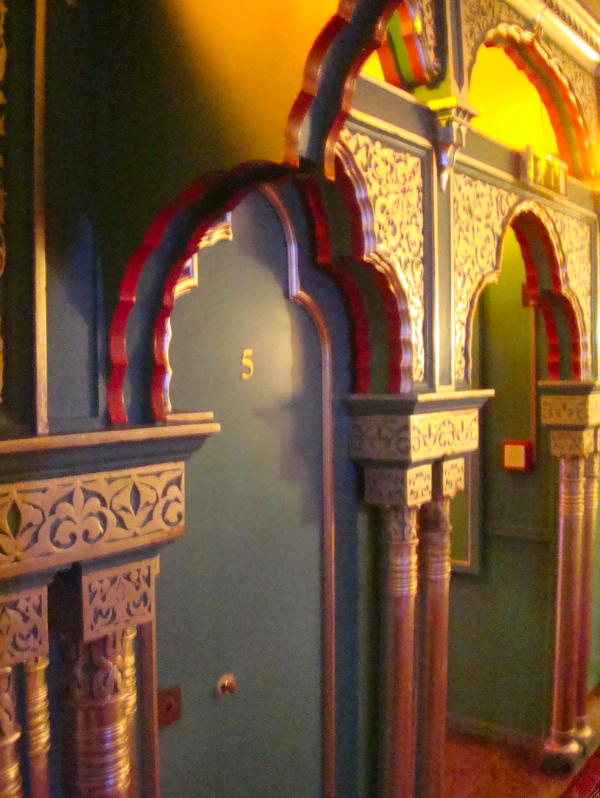 Cabin No. 5